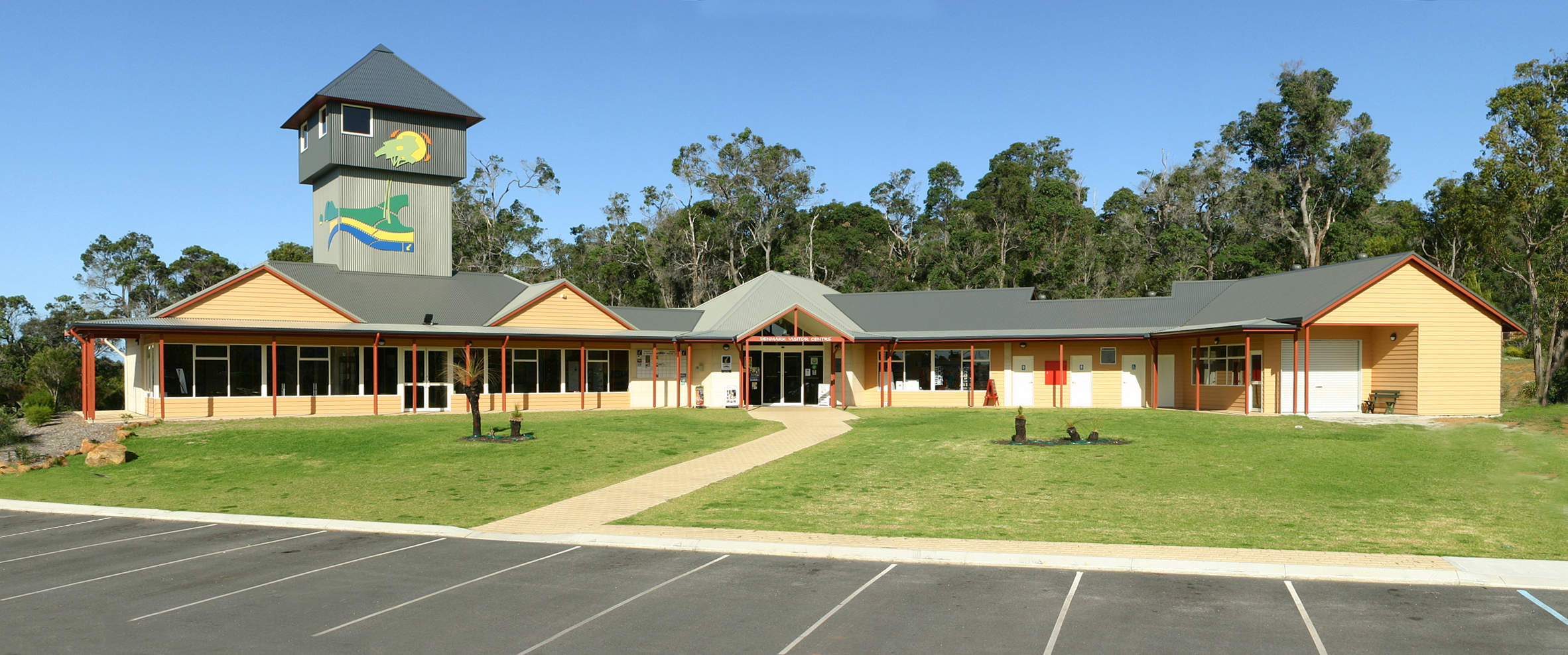 Denmark Visitor Centre with Barometer Tower, Denmark, Western Australia.